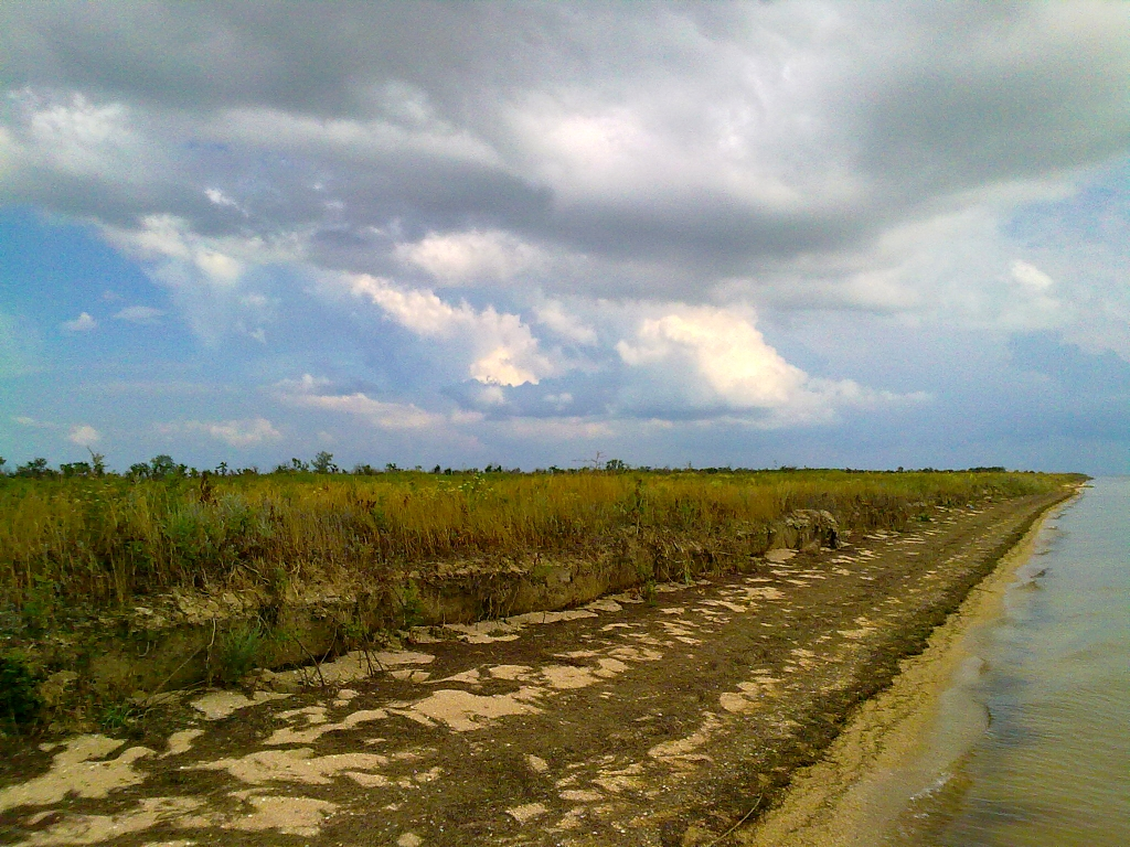 Beysugskiy gulf, Sea of Azov, Russia